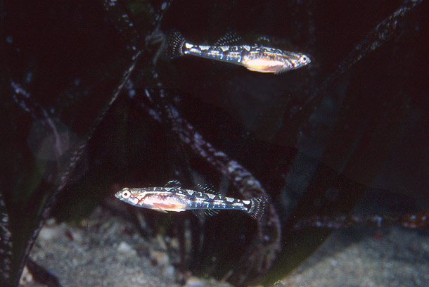 2 Pomatoschistus quagga photographed near Pianosa island (Tuscan Archipelago, Italy). Photo by Stefano Guerrieri.